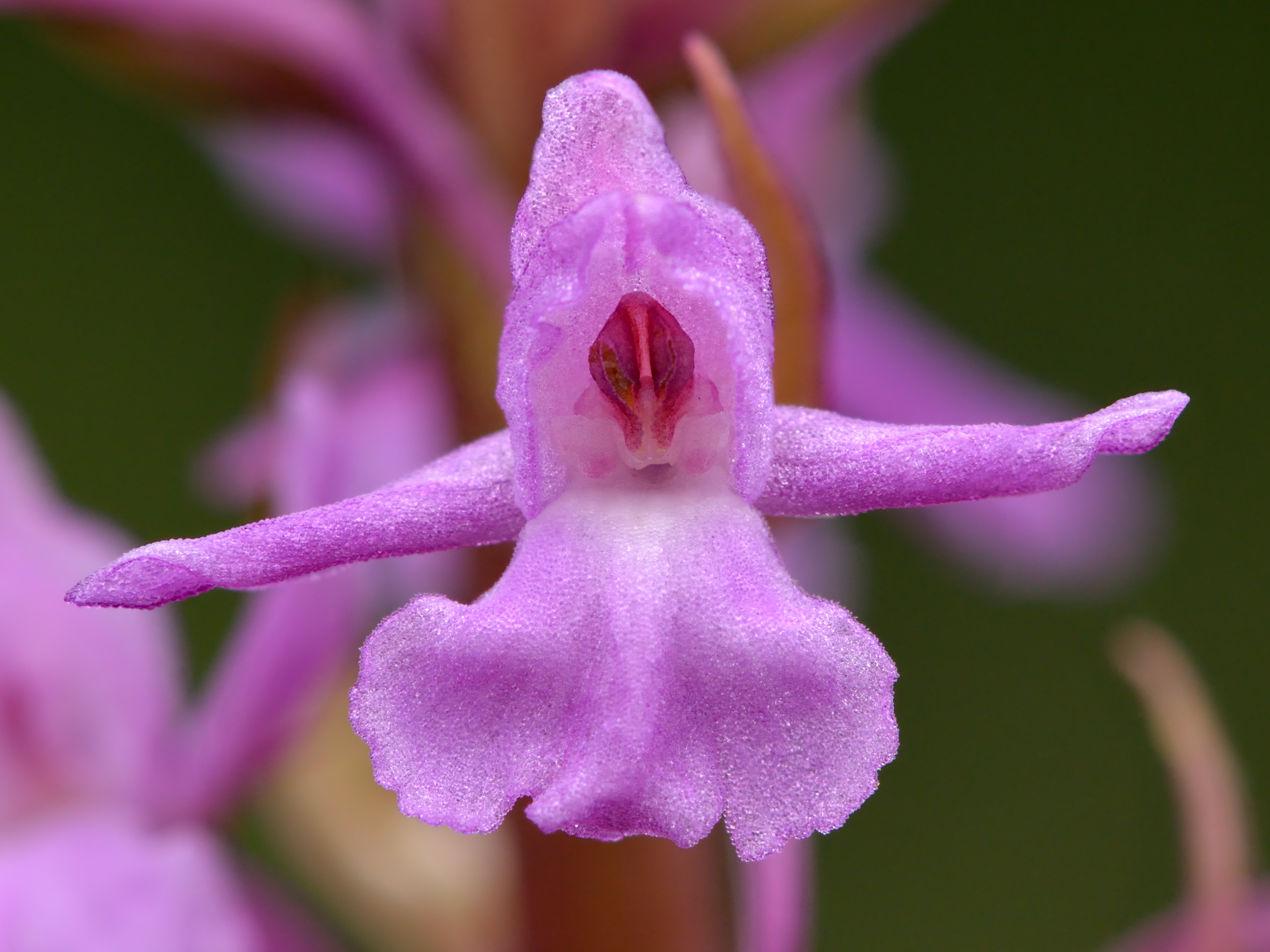 Flower of the fragrant orchid (Gymnadenia conopsea). Size ca 12 mm. Niitvälja bog, Estonia.